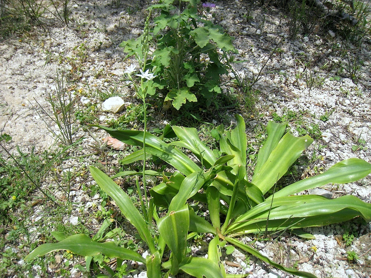 Loncomelos narbonensis (Syn. Ornithogalum narbonense, with leaves of Charybdis maritima, Syn. Urginea maritima, det. User:RLJ)